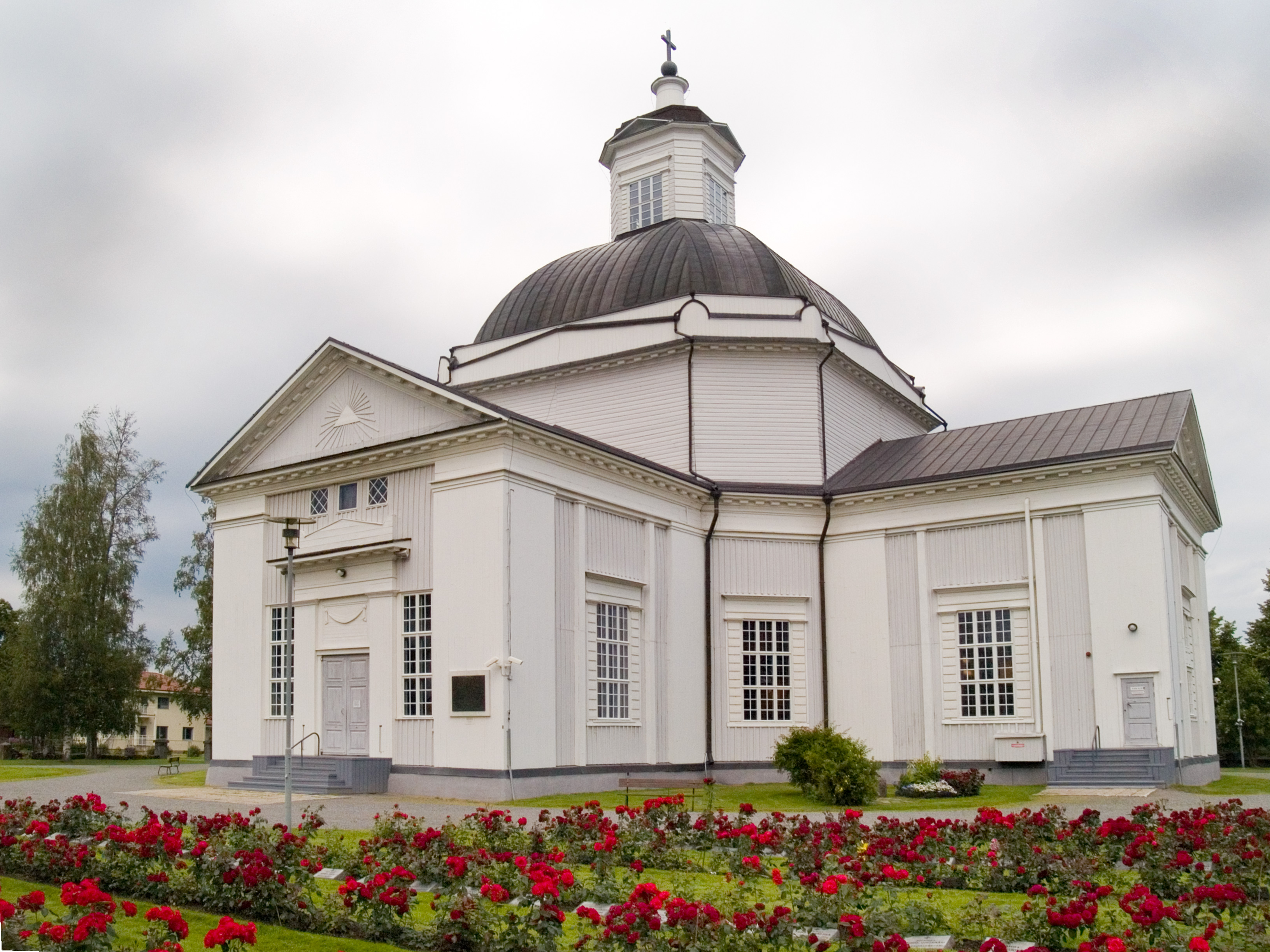 Cathedral of the Diocese of Lapua, Lapua, Finland.